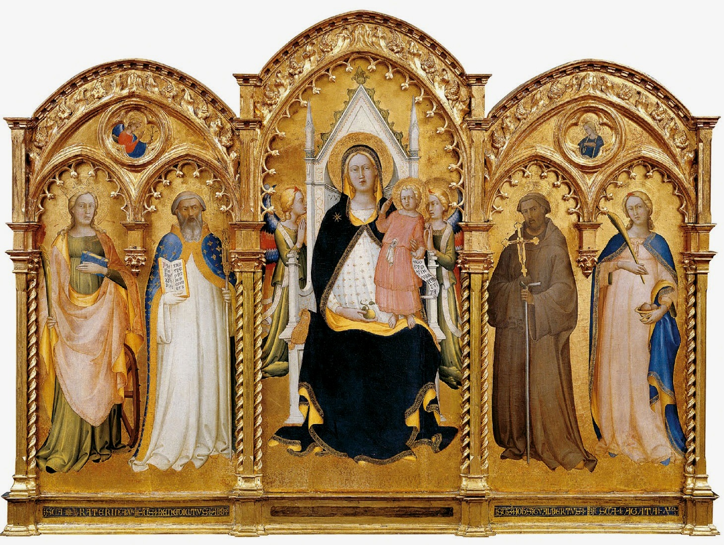 Lorenzo Monaco, Trittico di Prato, 1410-15, Prato, Museo civico